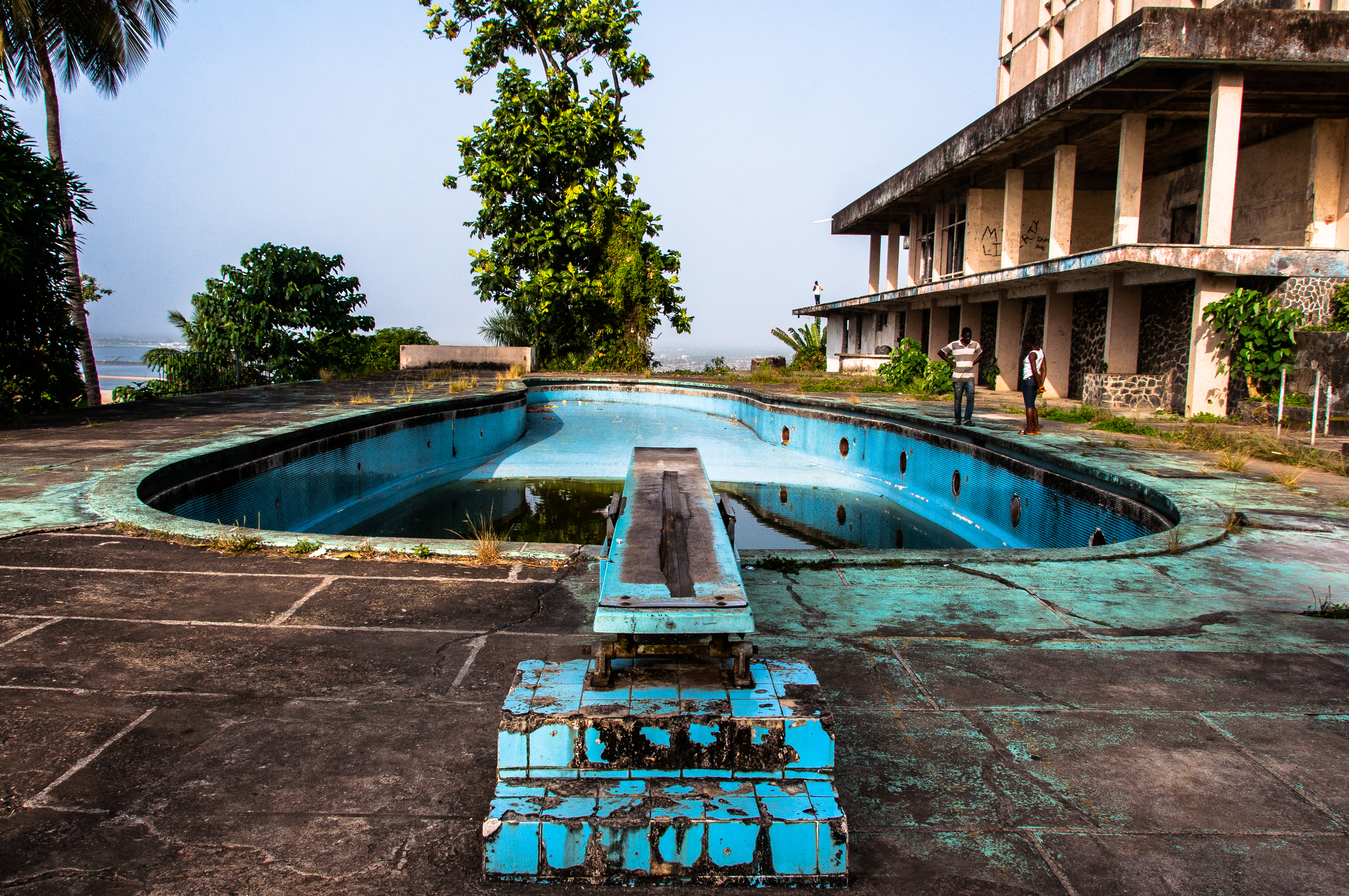 The swimming pool area of the former Ducor Palace Hotel in Monrovia, Liberia. The Ducor Palace Hotel in Monrovia was the first international-class hotel constructed in Liberia, and was for many years one of the few five-star hotels in all of Africa. It had three hundred rooms, a pool, tennis courts, and a French restaurant and was popular with tourists and businesspeople from Africa and around the world. It sits on Ducor Hill and overlooks the Atlantic Ocean and the Saint Paul River. The hotel closed in 1989, just before the First Liberian Civil War. The building was severely damaged by the violence of the war and the looting that occurred afterwards. During and after the war, displaced residents of many of Monrovia's slums began to occupy the hotel's empty rooms. In 2007, the Liberian Ministry of Justice began to evict the Ducor Hotel's residents and in 2008, the Government of Liberia signed a lease agreement with the Government of Libya, who began clearing the property of debris in 2010 in preparation for a bidding process to be completed by June 2010. The project was delayed several times before finally being abandoned upon Liberia's severing of diplomatic relations with the Gaddafi government following the outbreak of the 2011 Libyan civil war. The building is open today and visitors can walk throughout the grounds and building (often after paying a "security fee" to have one of the guards accompany them). It is a popular place for Monrovia residents to come and enjoy the panoramic view of the city, especially for special occasions like Christmas, New Years, and Independence Day.